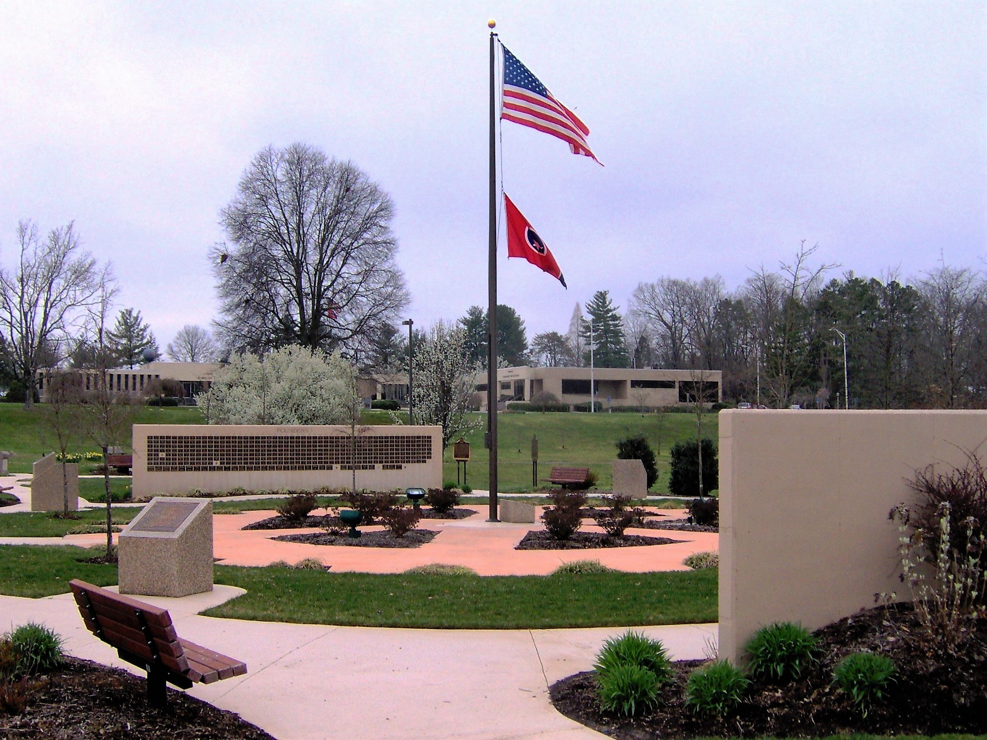 The Commemorative Walk monument in Oak Ridge, Tennessee, in the southeastern United States. The monument lists the founders of the city and details its history as the base for the development of the atomic bomb.